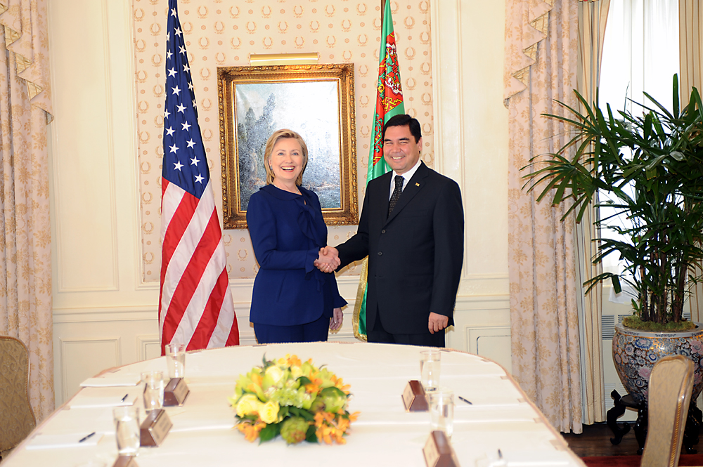 U.S. Secretary of State Hillary Rodham Clinton meets with Turkmenistan President Gurbanguly Berdimuhamedov at the Waldorf Astoria hotel during the 64th Session of the UN General Assembly in New York City, New York September 21, 2009. [State Department photo / Public Domain]